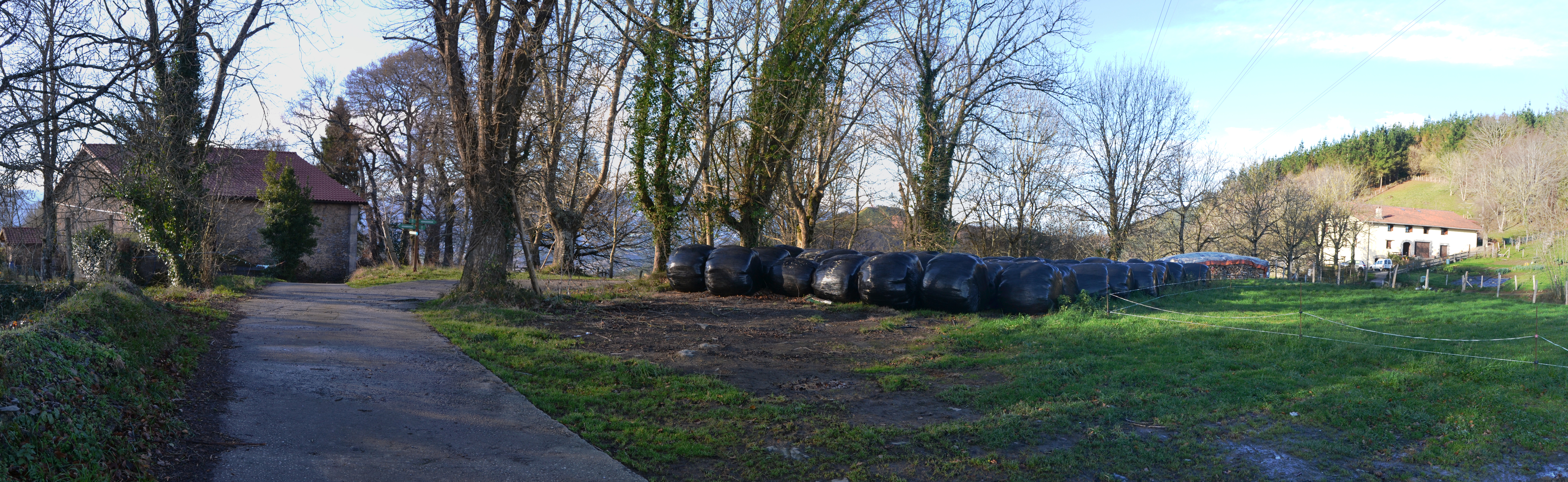 Ioia, Itsasondo, Gipuzkoa, Euskal Herria.